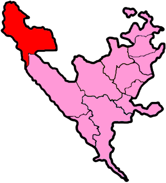 The first electoral unit of the Federation of Bosnia and Herzegovina (HoRFBiH) shown within Bosnia and Herzegovina.